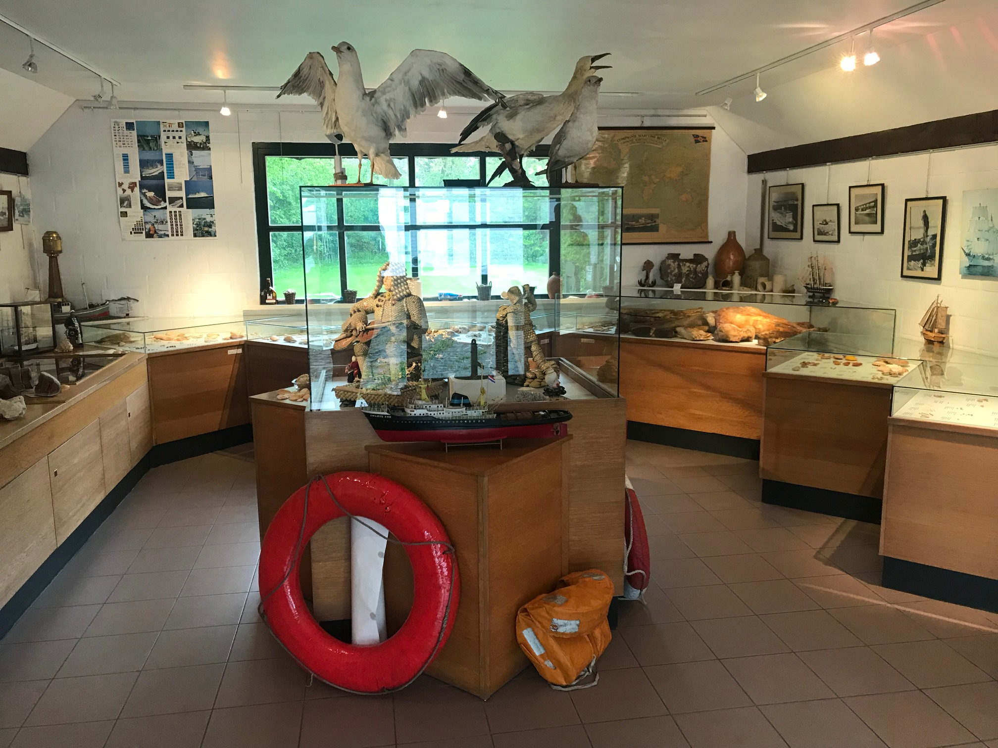 Turkeyenhof Schelpenverzameling